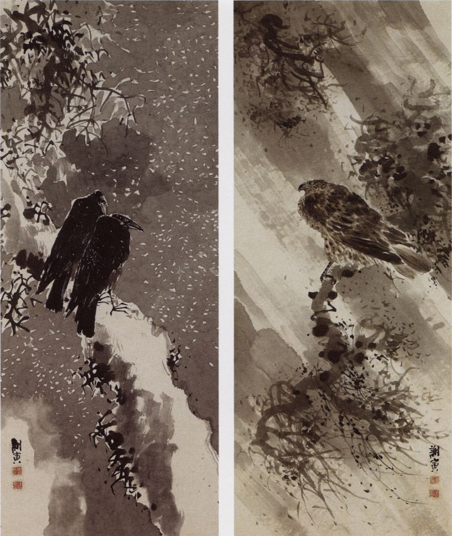 A_black_hawk_and_two_crows;inks color on paper,Important cultural asset of Japan 鳶鴉図（重要文化財） 紙本着色